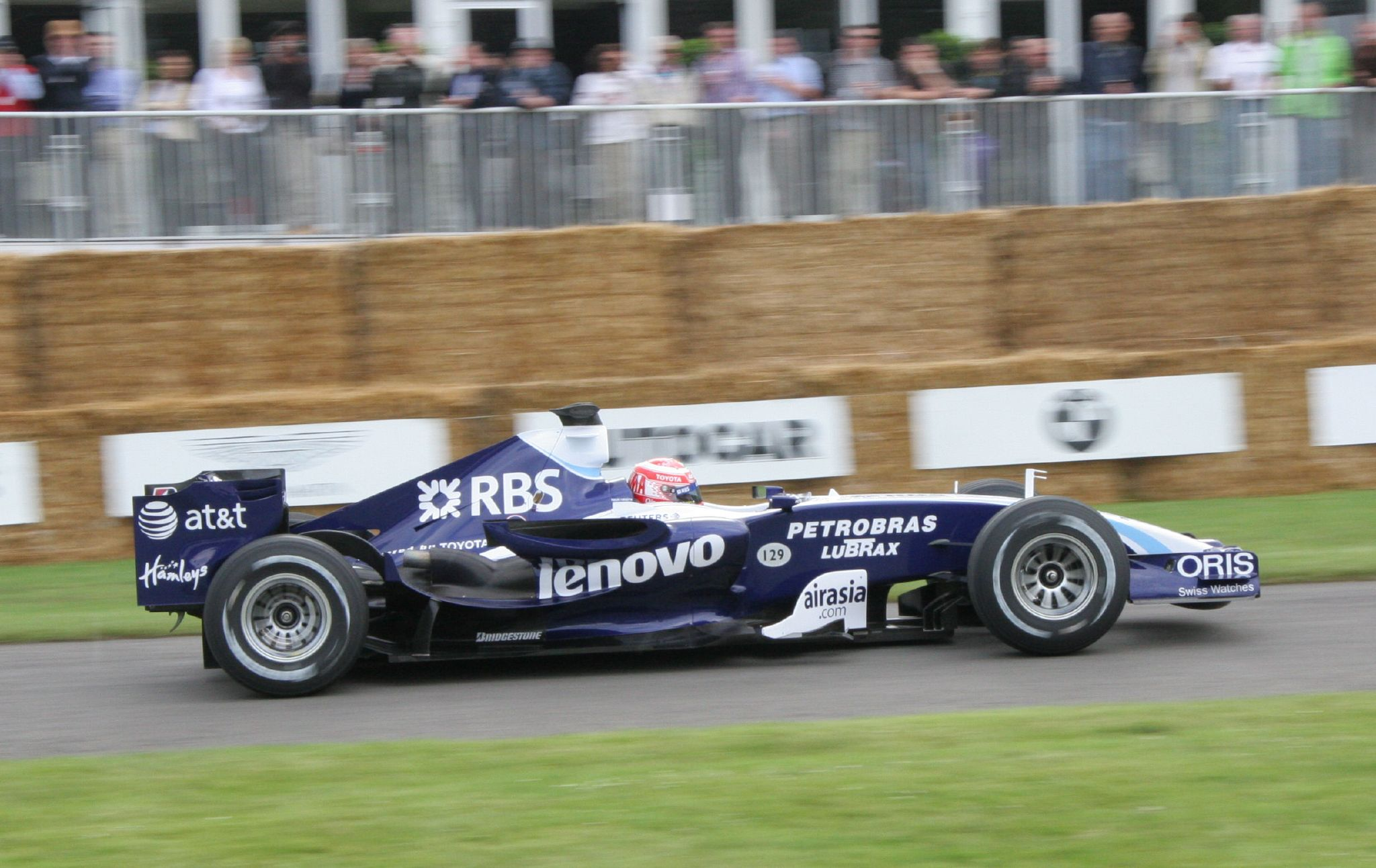 Kazuki Nakajima driving a Williams FW28 at the 2007 Goodwood Festival of Speed.